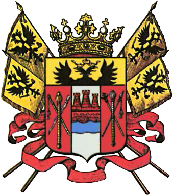 Coat of arms of Novocherkassk and the Donskoy Army area approved July 5, 1878